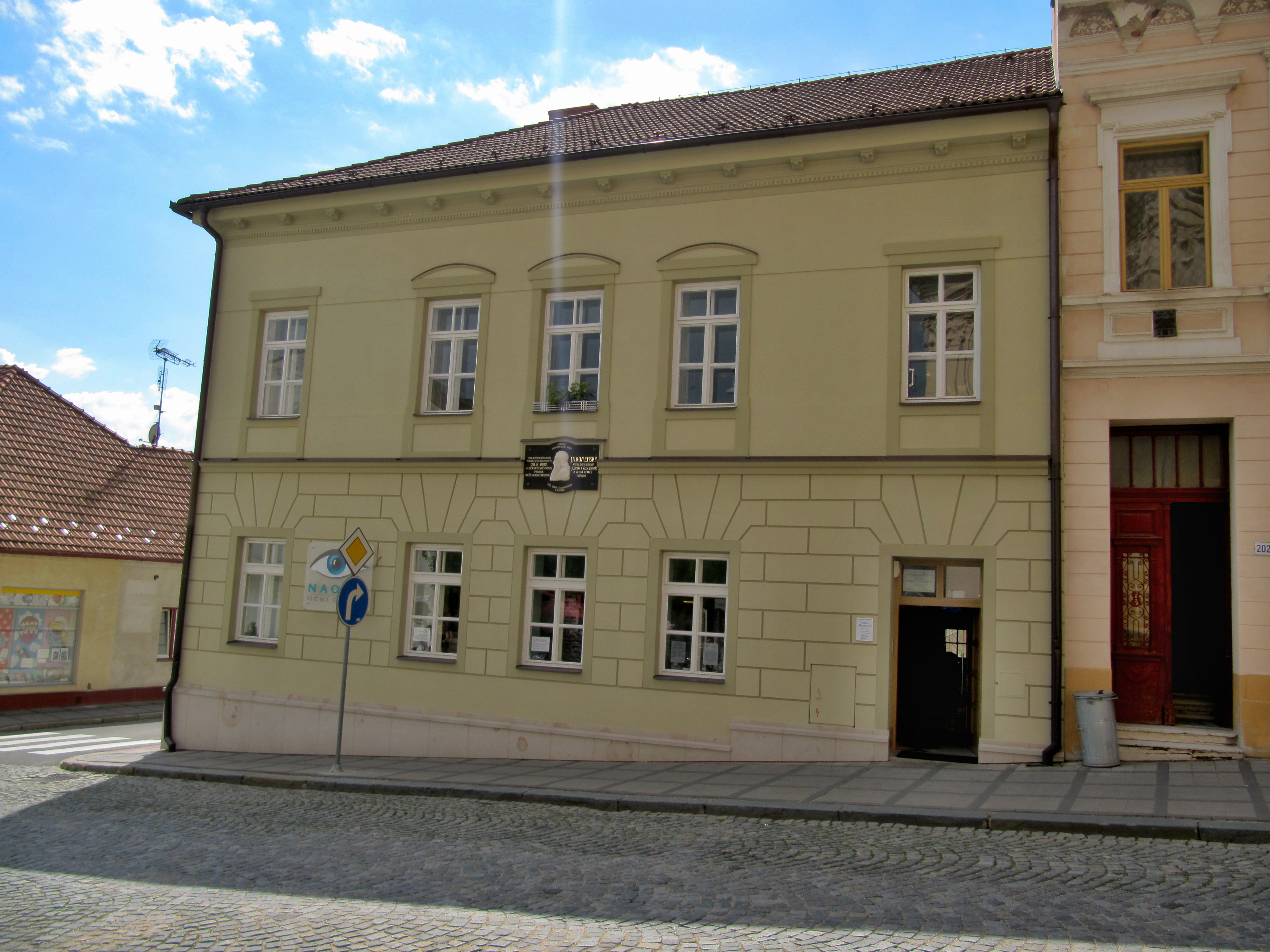 Possible birthplace of J.A. Komenský in Uherský Brod, Czech Republic